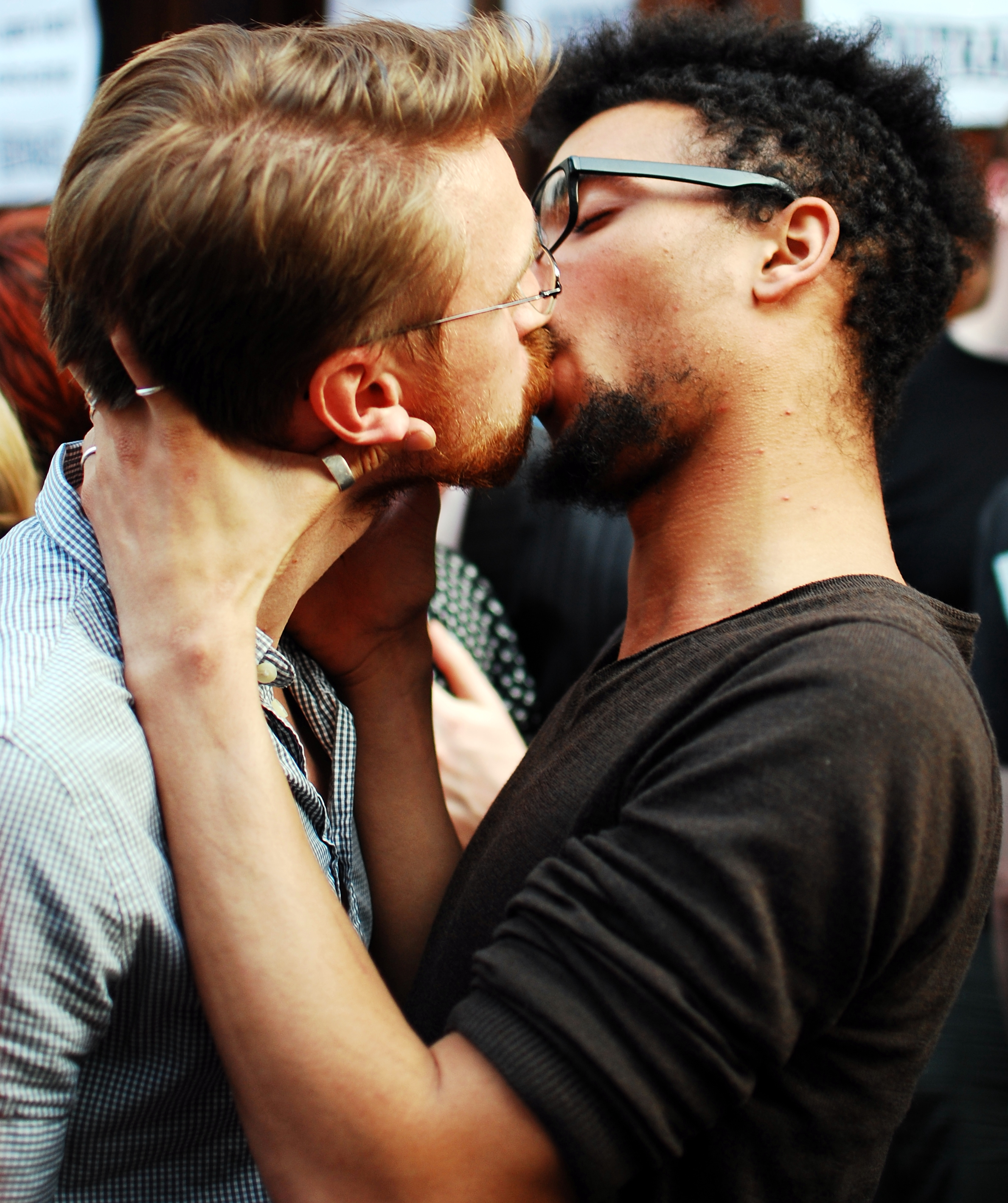 Men kissing at John Snow Pub, London